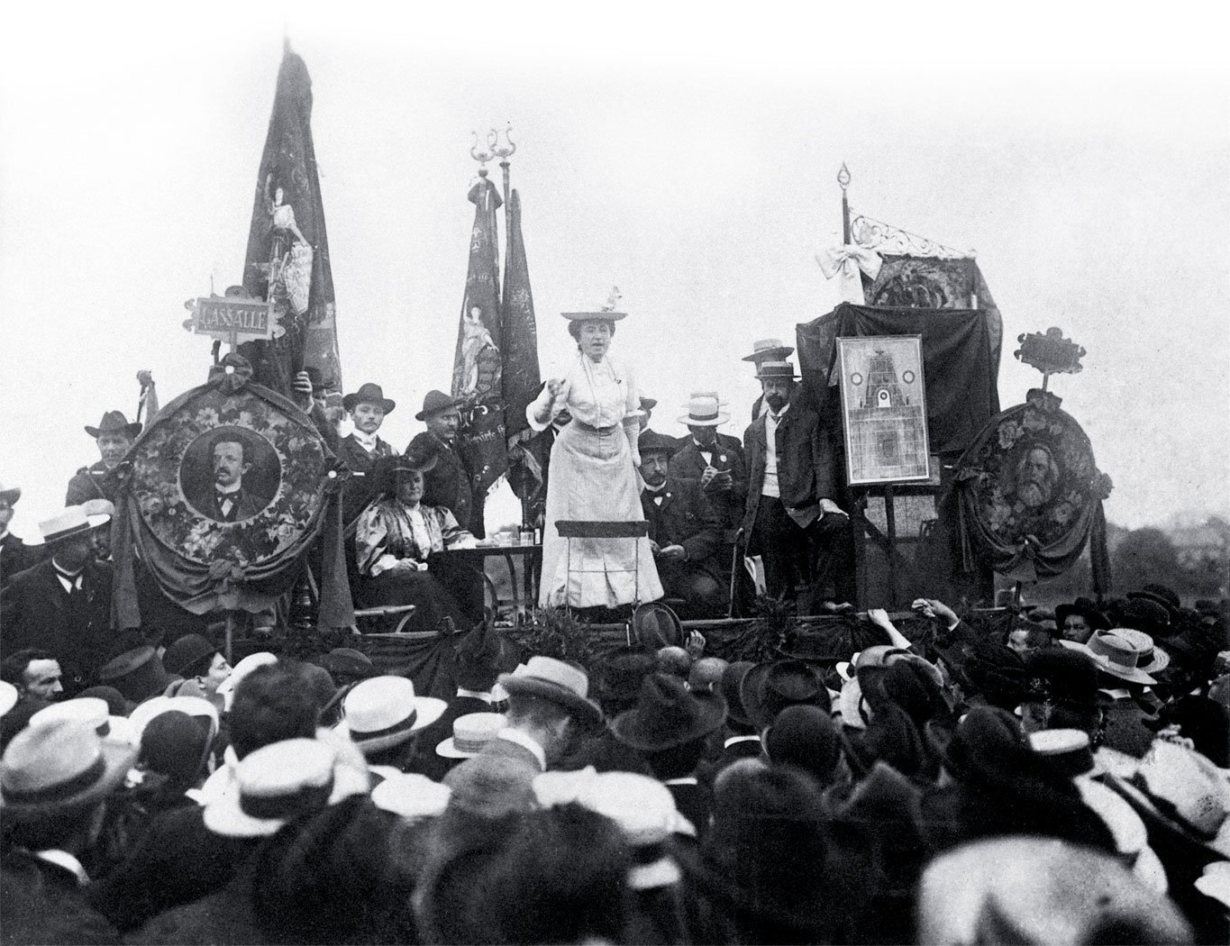 Rosa Luxemburg Addresses a Crowd (1907)